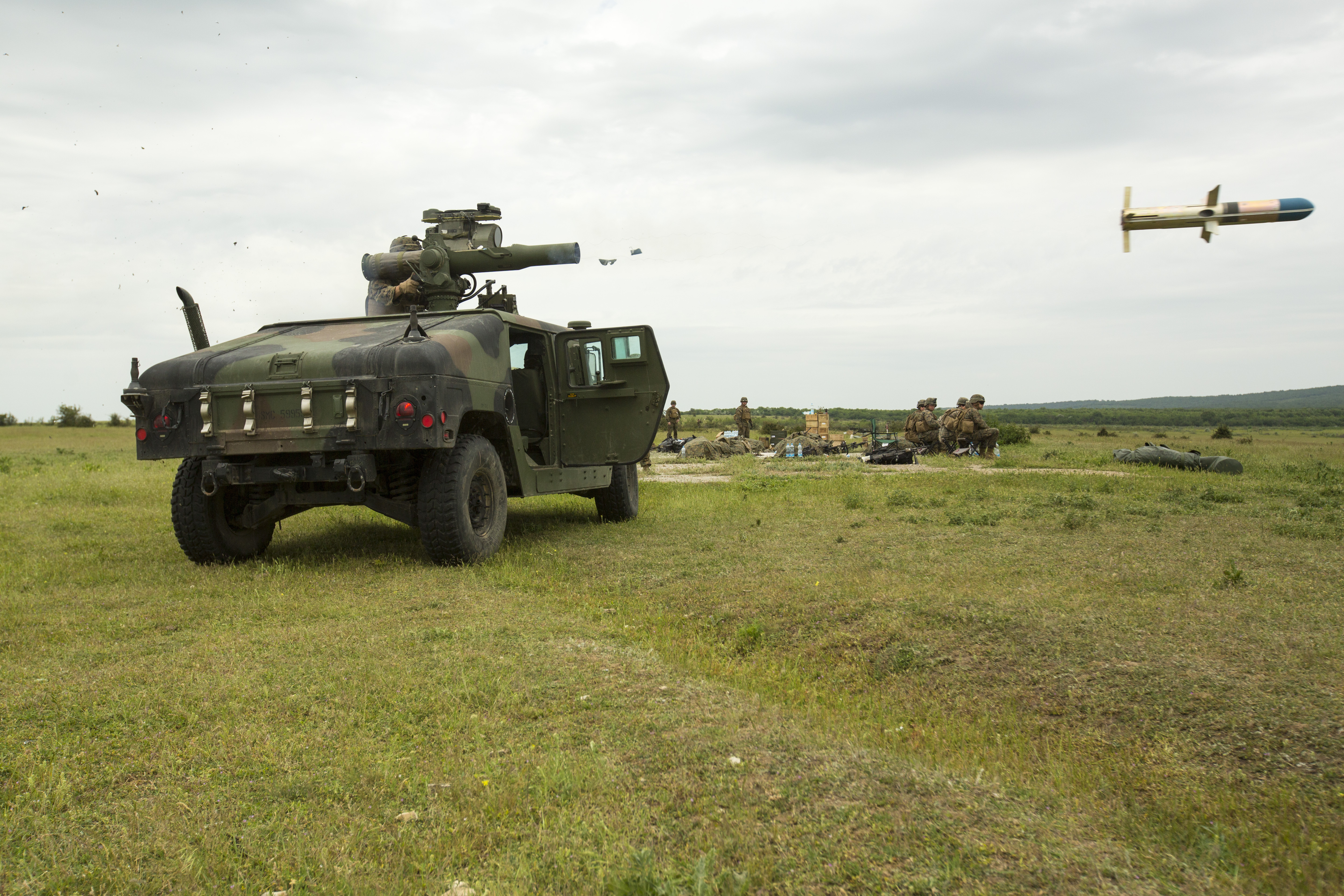 U.S. Marine Corps Cpl. Tyler Mayberry of Black Sea Rotational Force 14 from 3rd Battalion, 8th Marine Regiment, fires a tube-launched, optically-tracked, wire-guided missile downrange while conducting live-fire training during exercise Platinum Eagle 14-2 at Babadag Training Area, Romania, May 23, 2014. Exercise Platinum Eagle 14-2 is a multilateral exercise, designed to build partner nation capacity, reinforce relationships in a joint training environment and increase interoperability of allied and partner forces. Platinum Eagle 14-2 includes U.S. Marines and sailors, as well as soldiers from Romania, Bulgaria, and Macedonia. (U.S. Marine Corps photo by Lance Cpl. Samantha A. Barajas, 2nd Marine Division, Combat Camera/ Released)